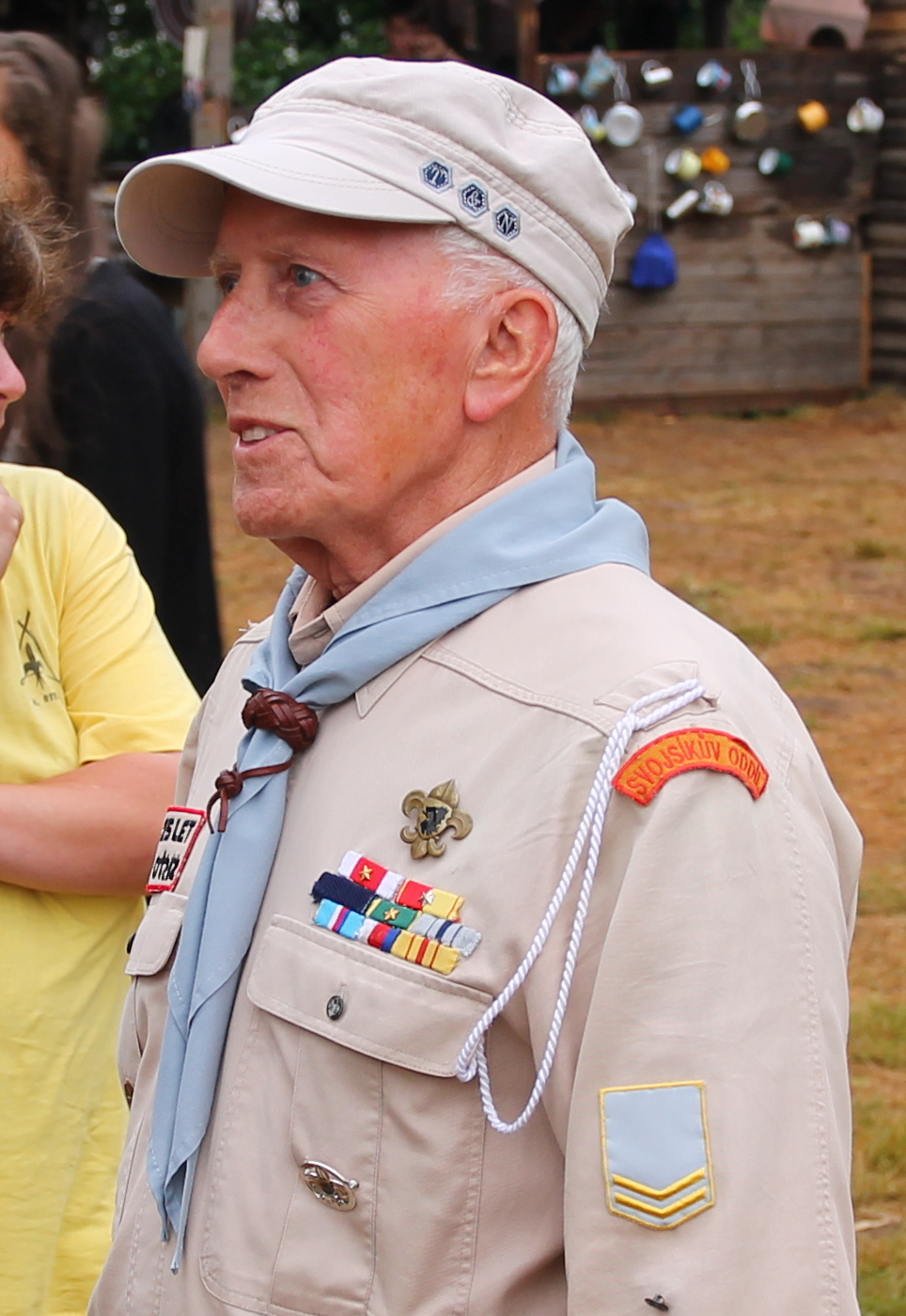 Jiří Lukšíček (nickname Rys – Lynx), Czech scout and political prisoner